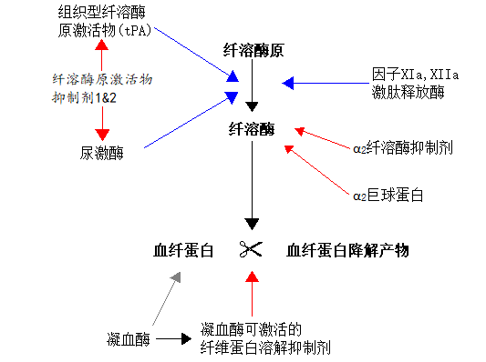 Fibrinolysis